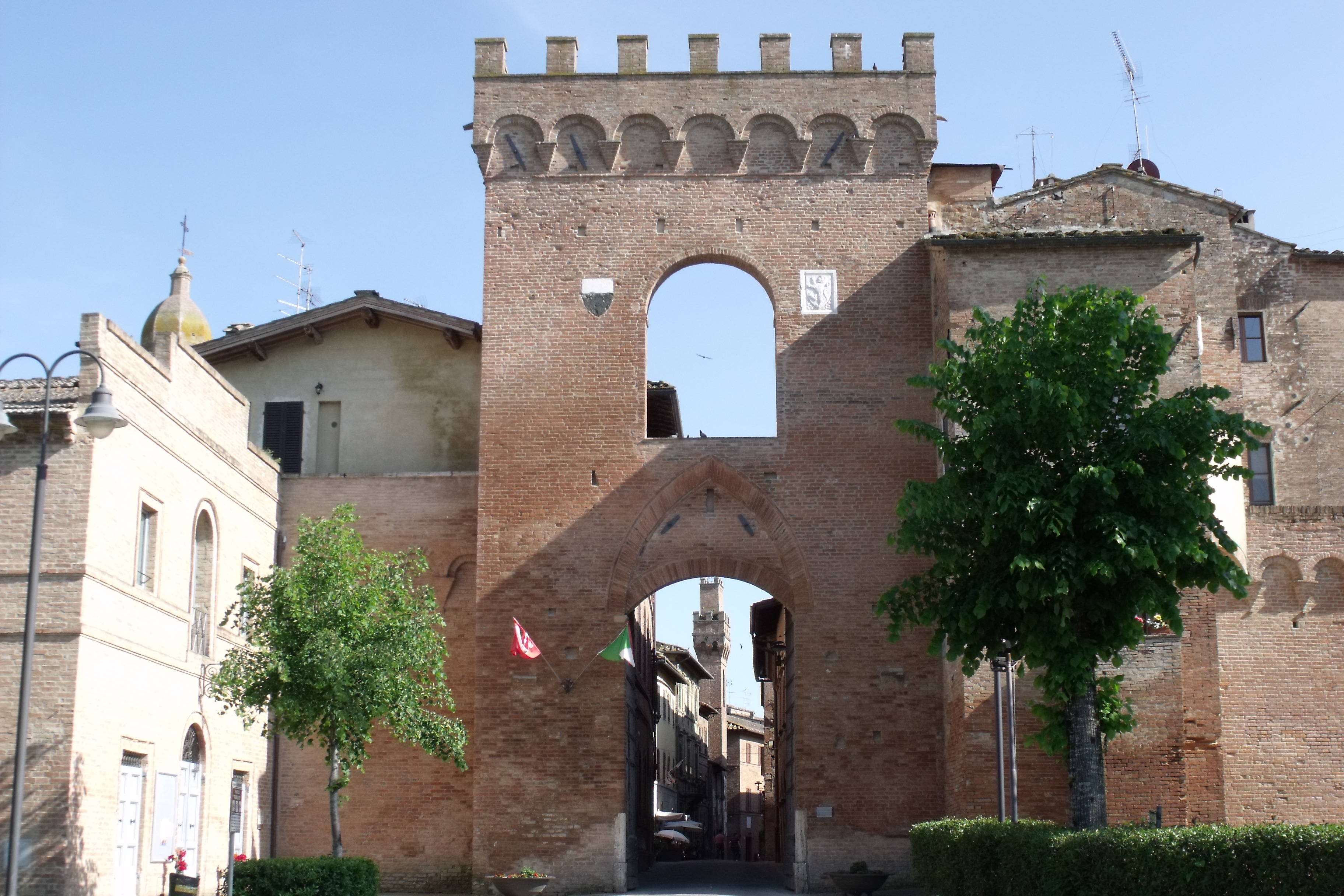 City gate of Buonconvento, Province of Siena, Tuscany, Italy